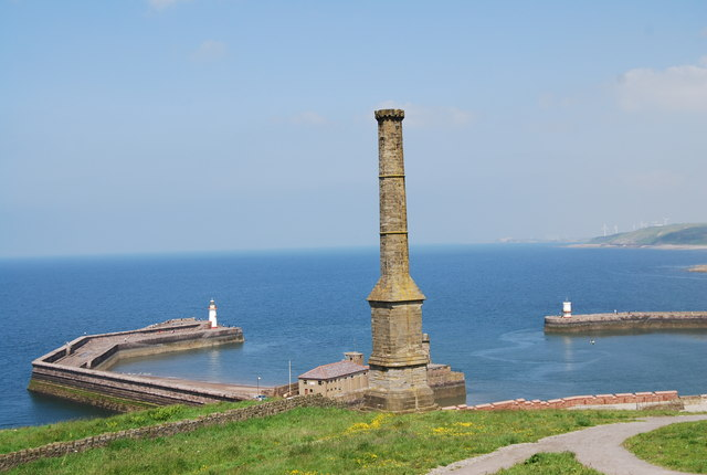 Candlestick Chimney & Whitehaven Outer Harbour